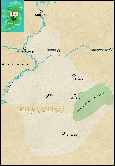 Map of Ely O'Carroll (Ireland)